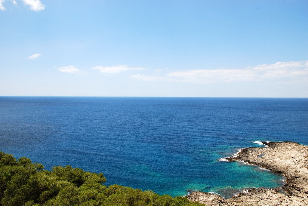 Ionic Sea in front of Porto Selvaggio